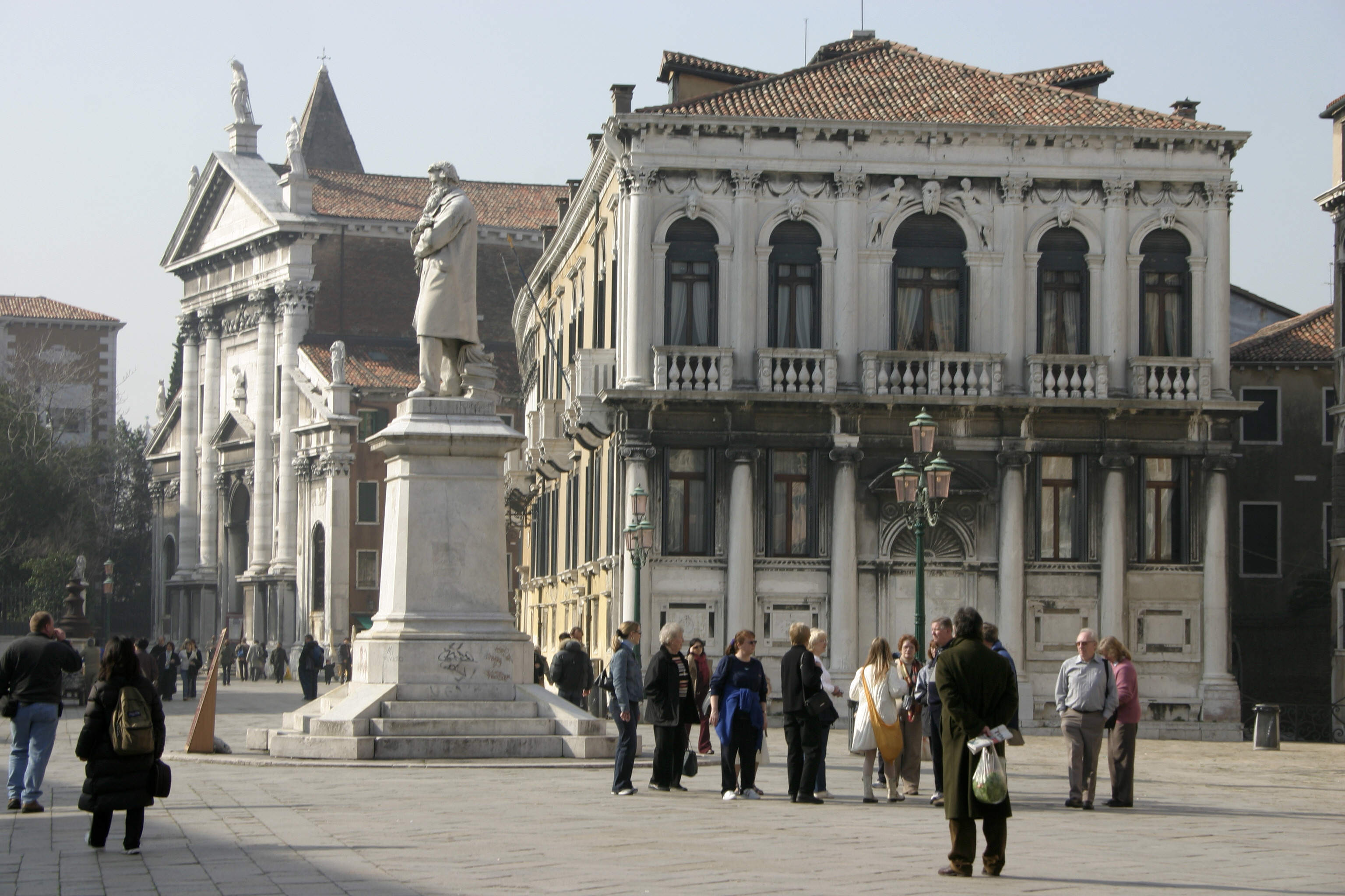 Venice, the manneristic-style facade [1618] towards the church, given to Giovanni Grapiglia, of Palazzo Loredan, in Campo Santo Stefano square.